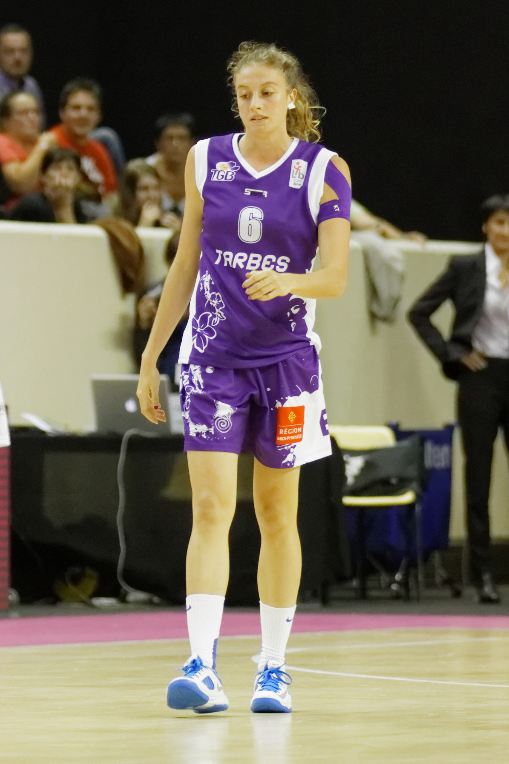 Open LFB, Charleville-Mézières - Tarbes, October 5th, 2013.